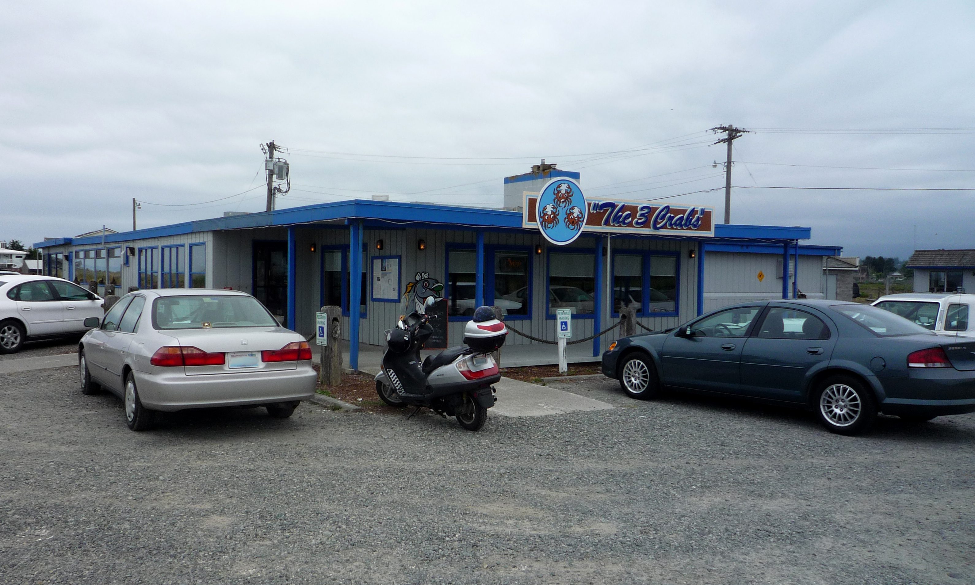 The 3 Crabs restaurant, Dungeness, Washington, USA.